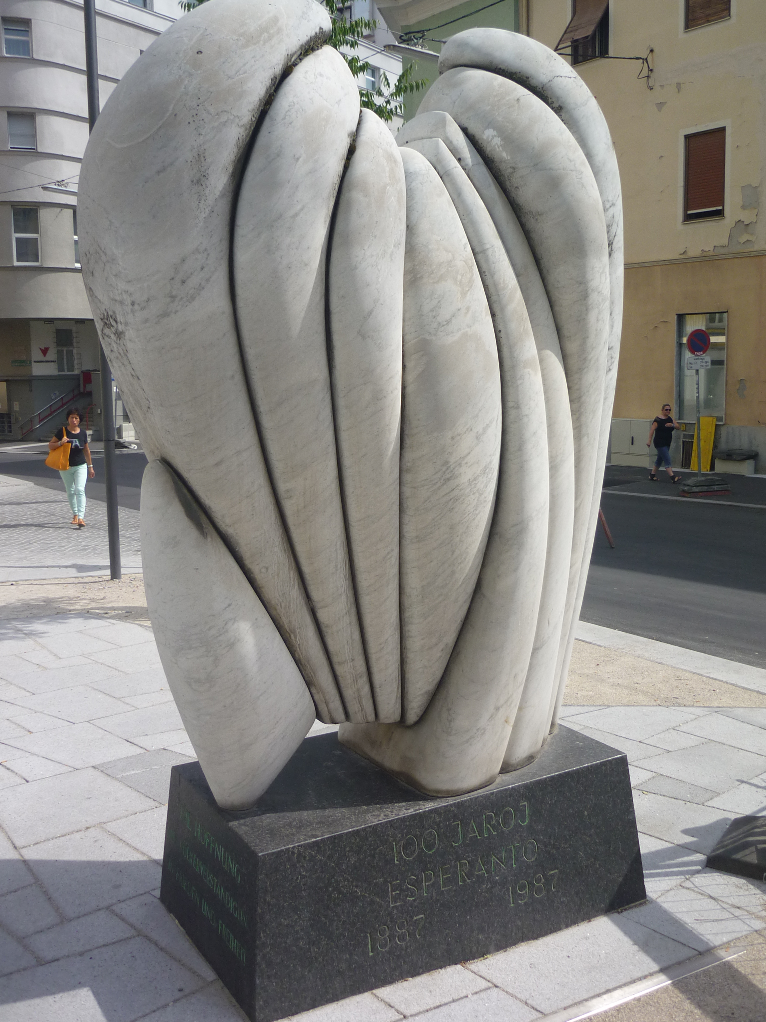 Statue dedicated to Esperanto, in Graz, at Esperantoplatz